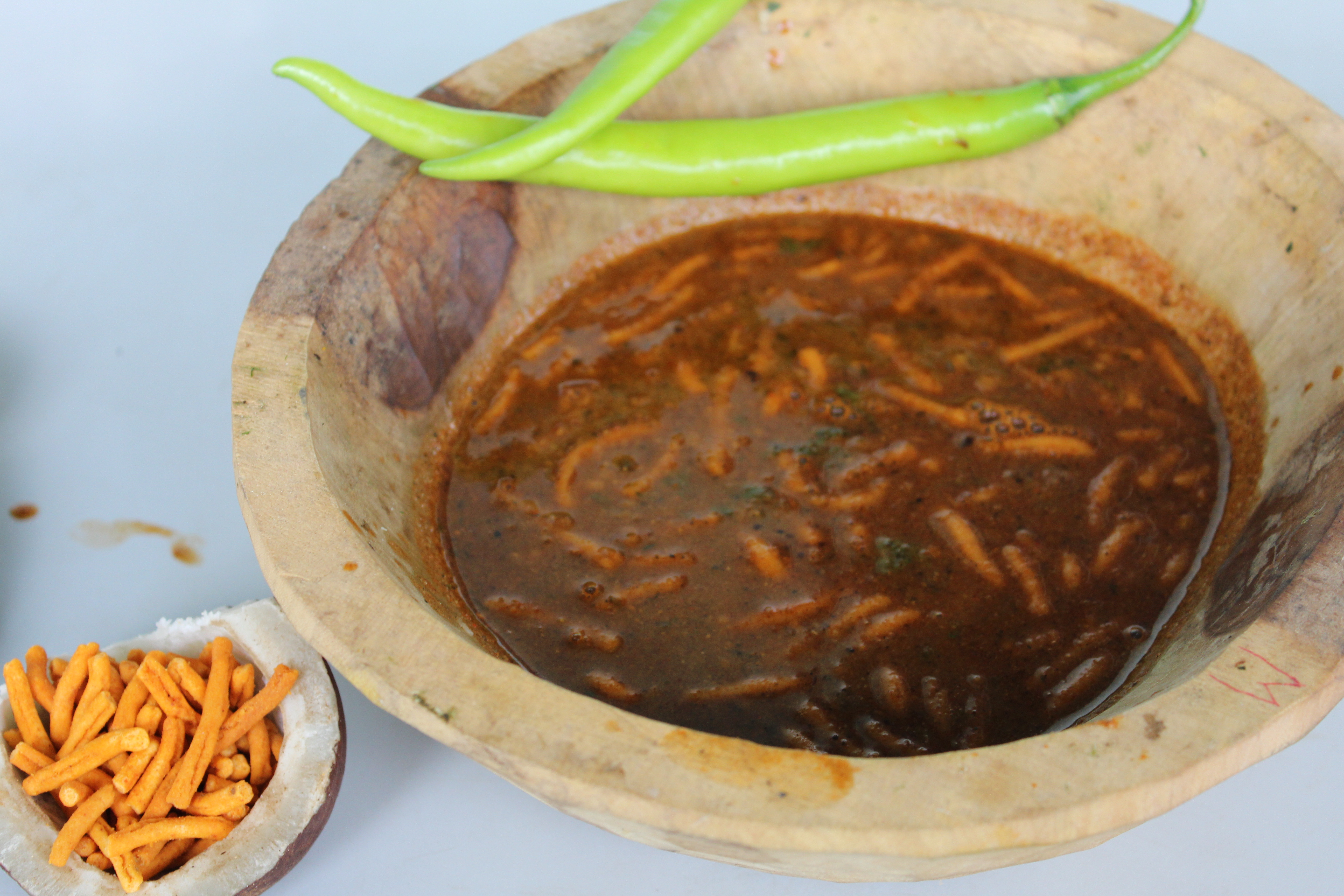 Masala curry with spicy Sev. A typical North Maharashtrian dish